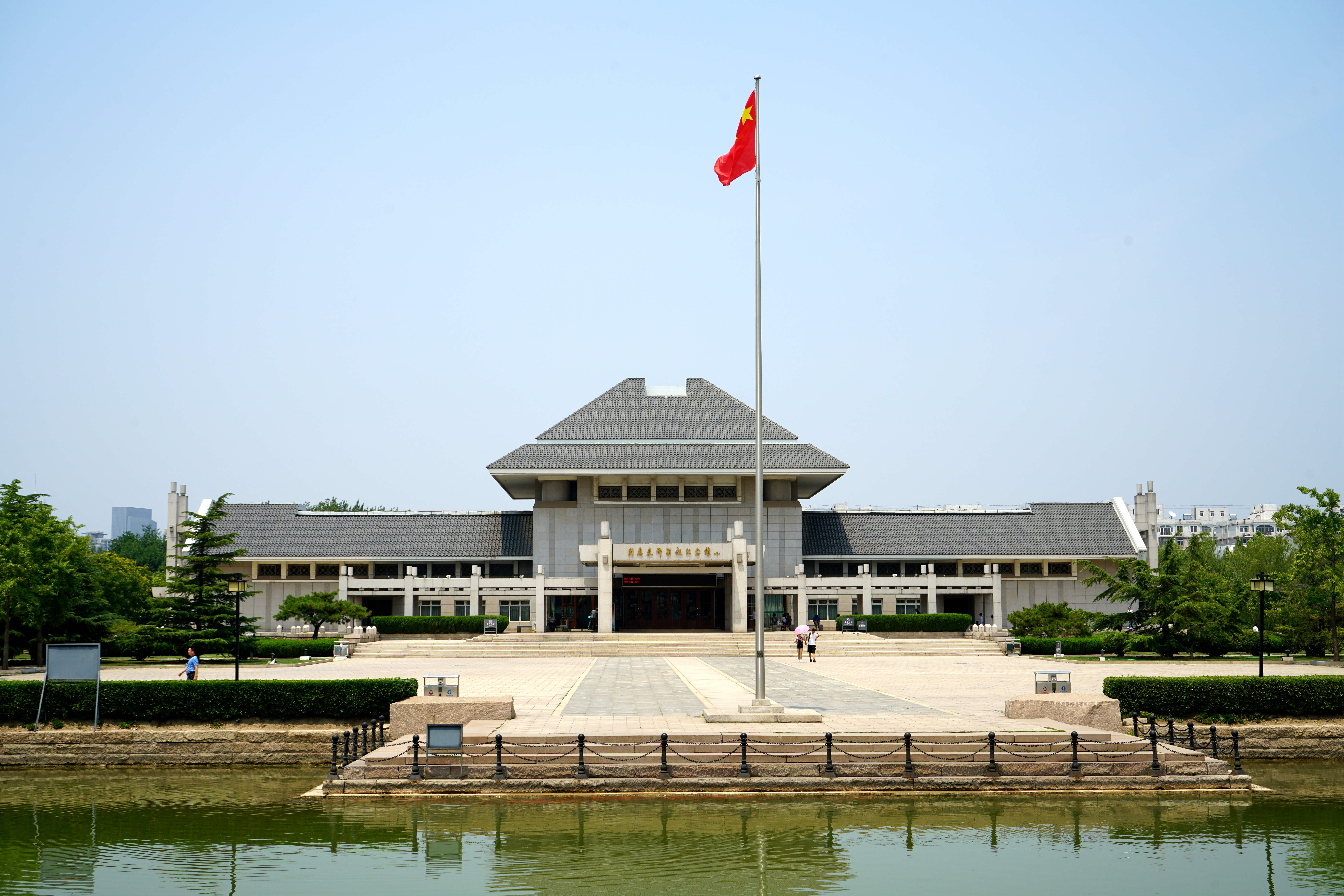 Memorial to Zhou Enlai and Deng Yingchao